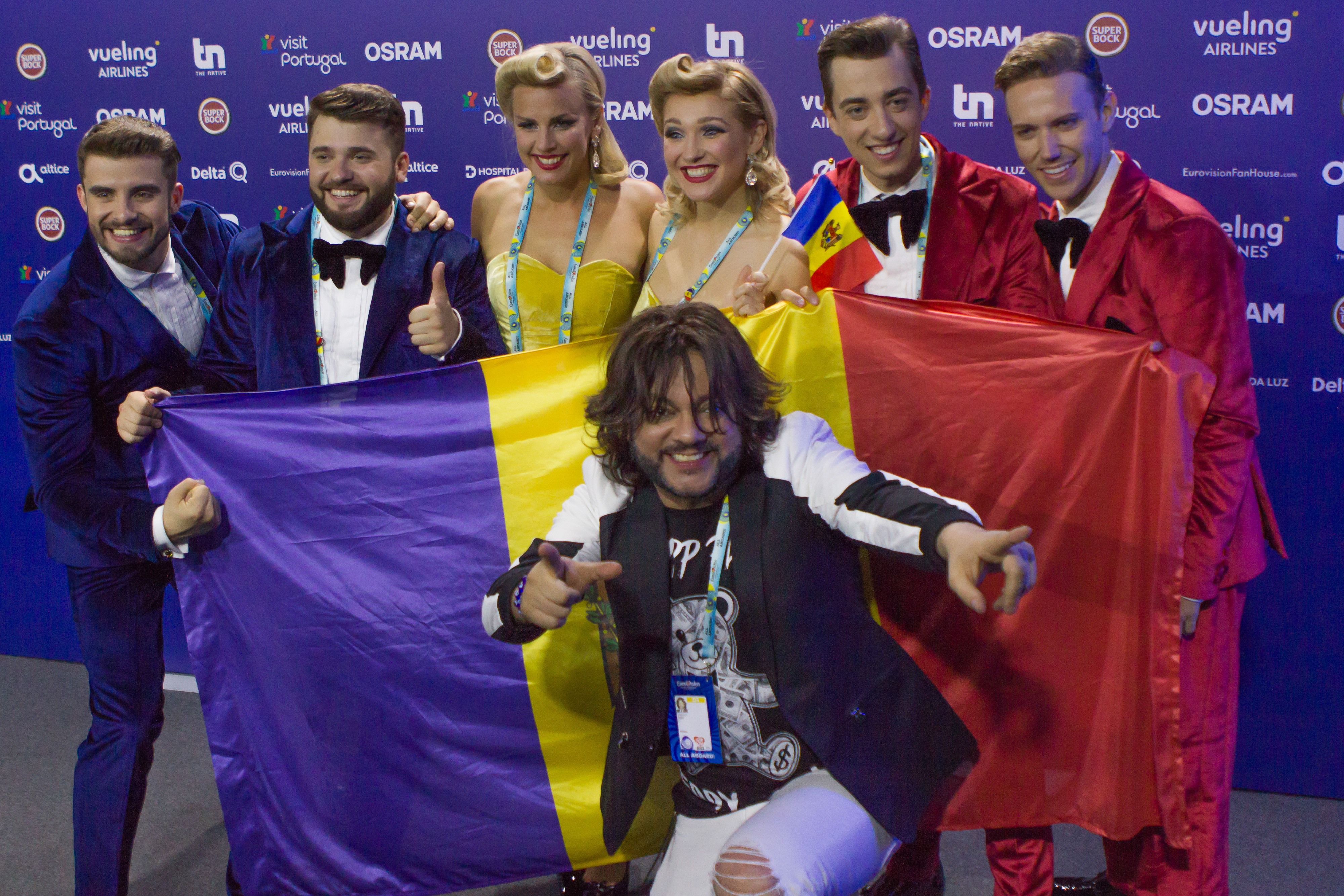 At the 2018 Semi Final 2 qualifiers press conference